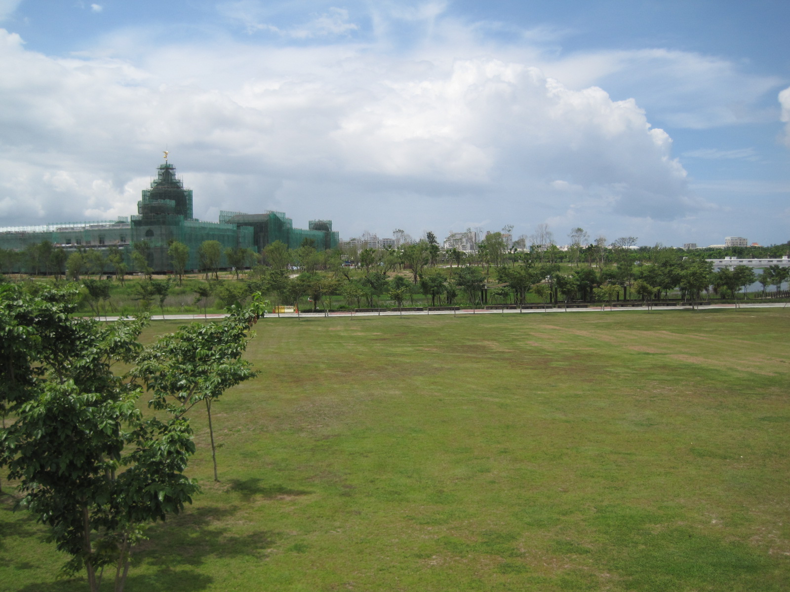 Tainan Metropolitan Park